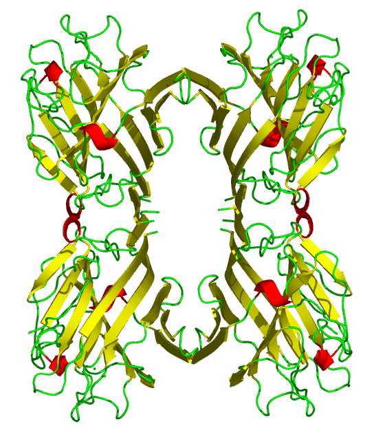 Made using PyMol from PDB file 1FAT.